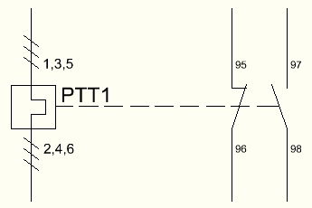 symbol of thermal overload relay